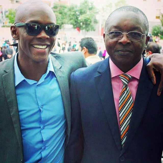 Israel Adesanya with father Femi Adesanya in 2014